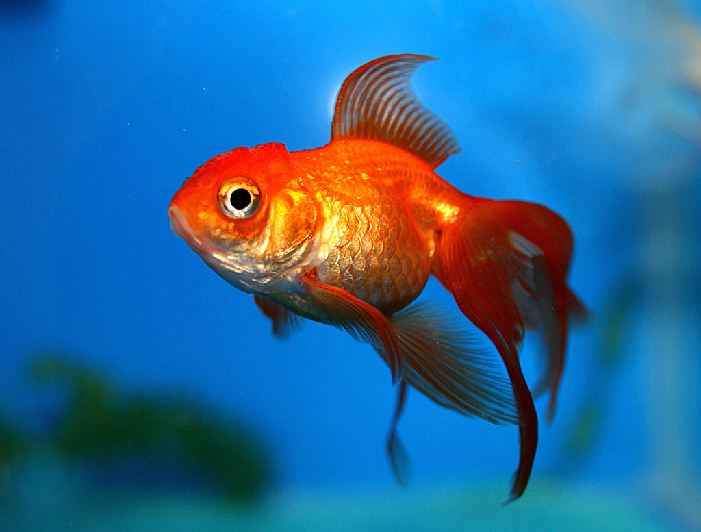 Goldfish posing for me